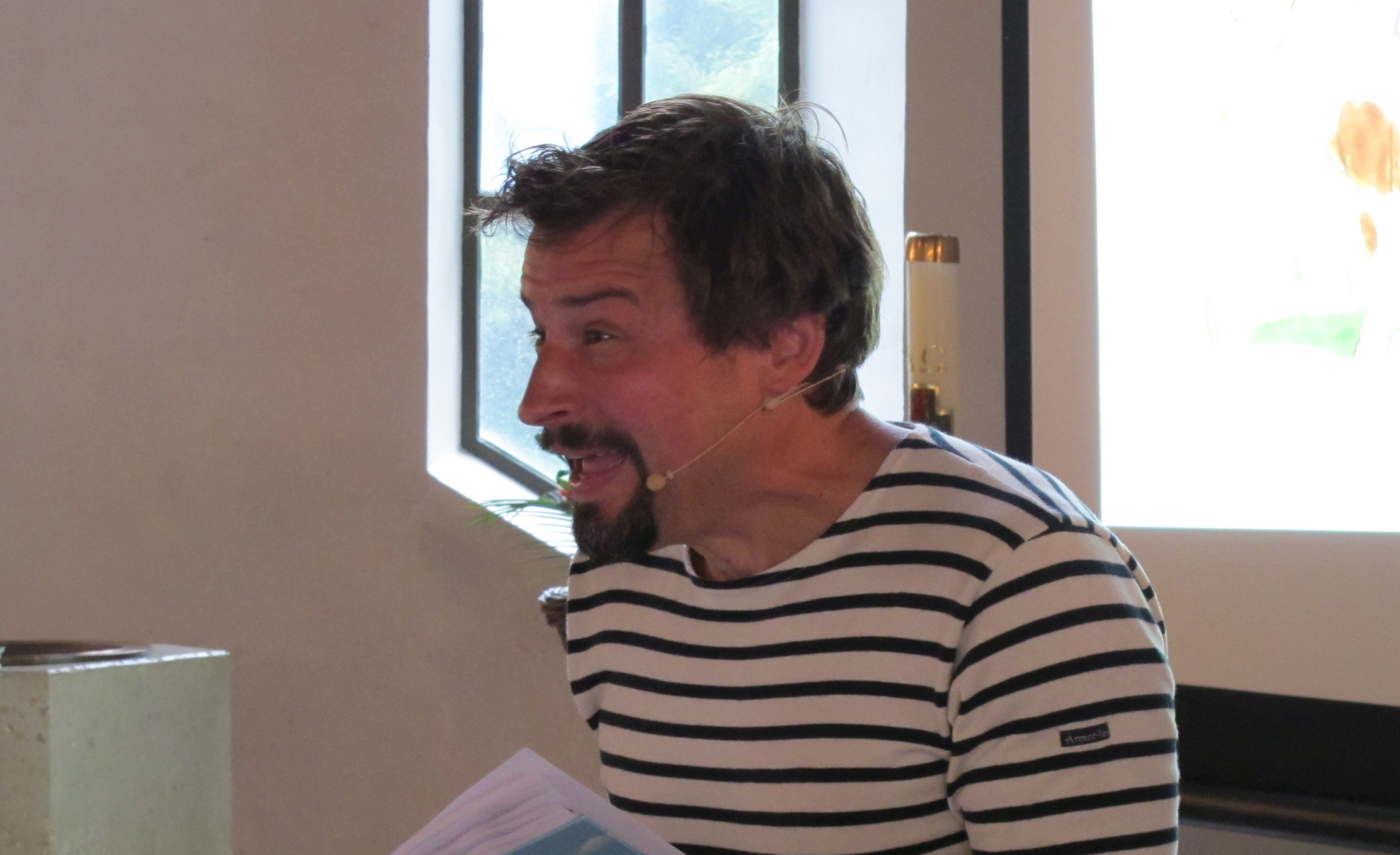 Jörg Steinleitner at a reading at the literary festival in Grainau 2016